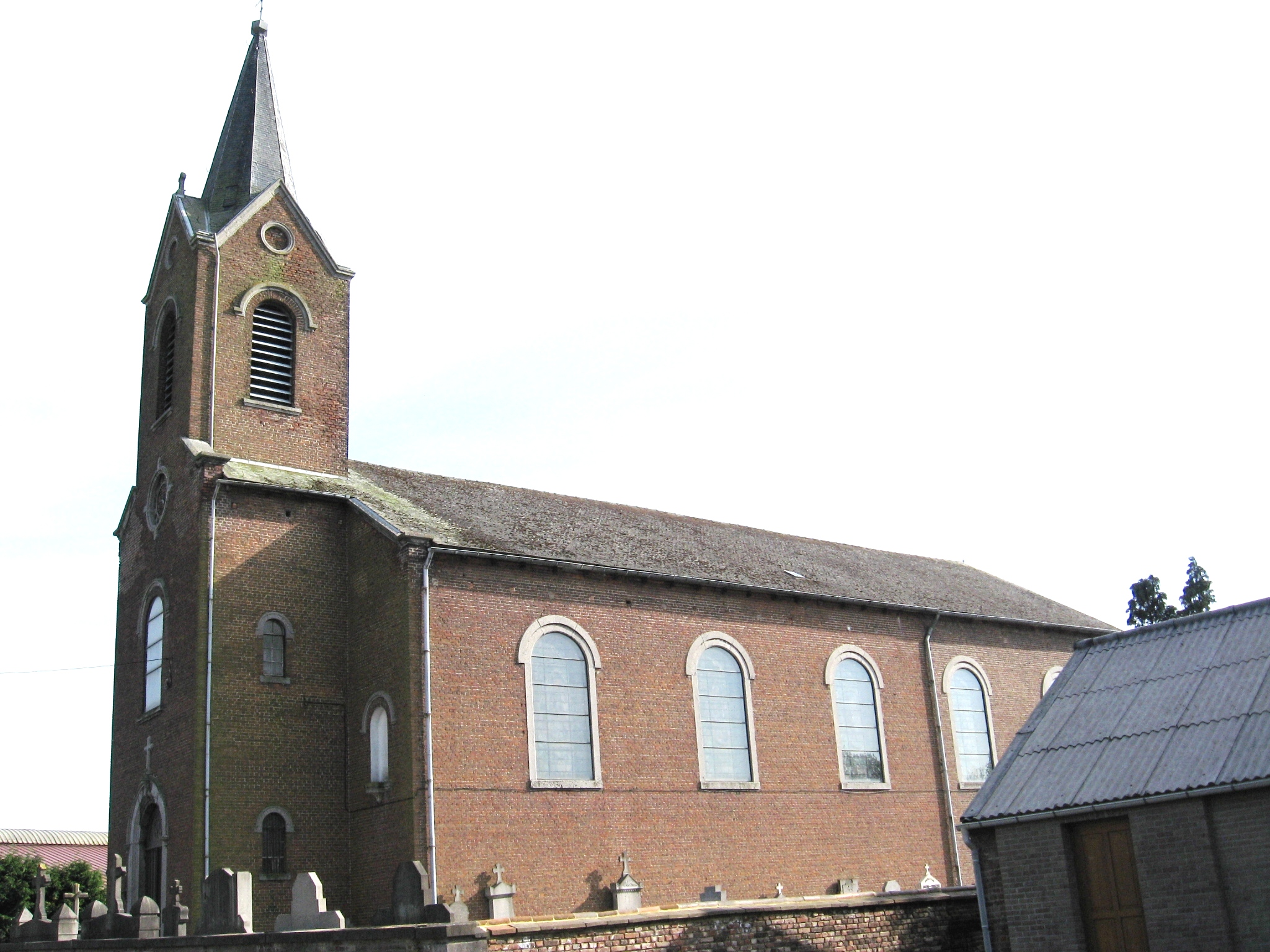 Church of Saint Lawrence in Cras-Avernas, Hannut, Liège, Belgium